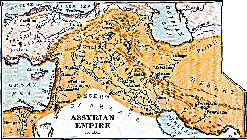 Cropped section of original image of three ancient maps, public domain Scanned by WMF intern Mike Hoffman, uploaded by Bastique, and cropped by Editor at Large